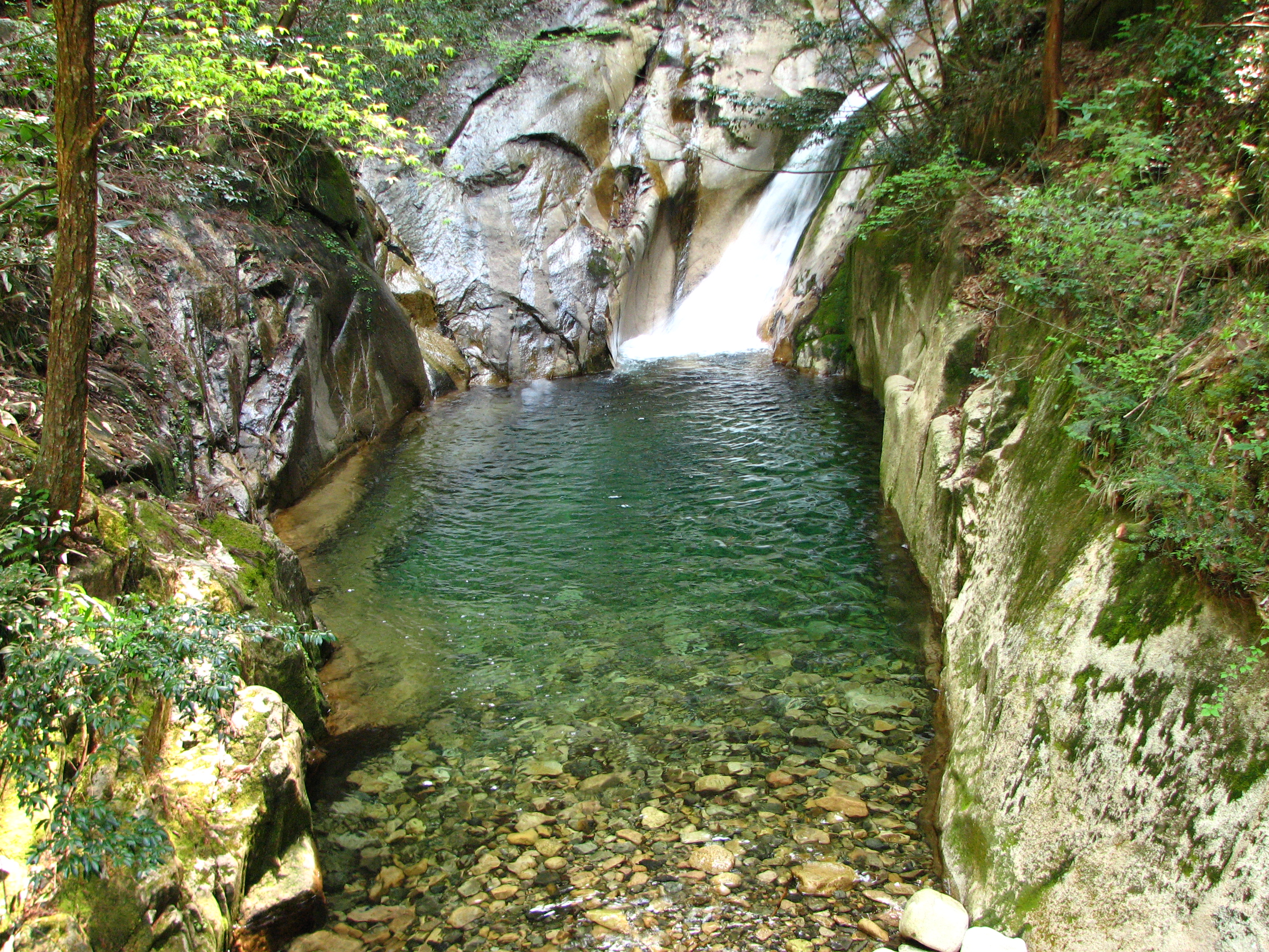 Jakuchikyō Valley.